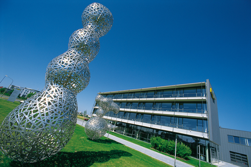 Humbaur Company Gersthofen